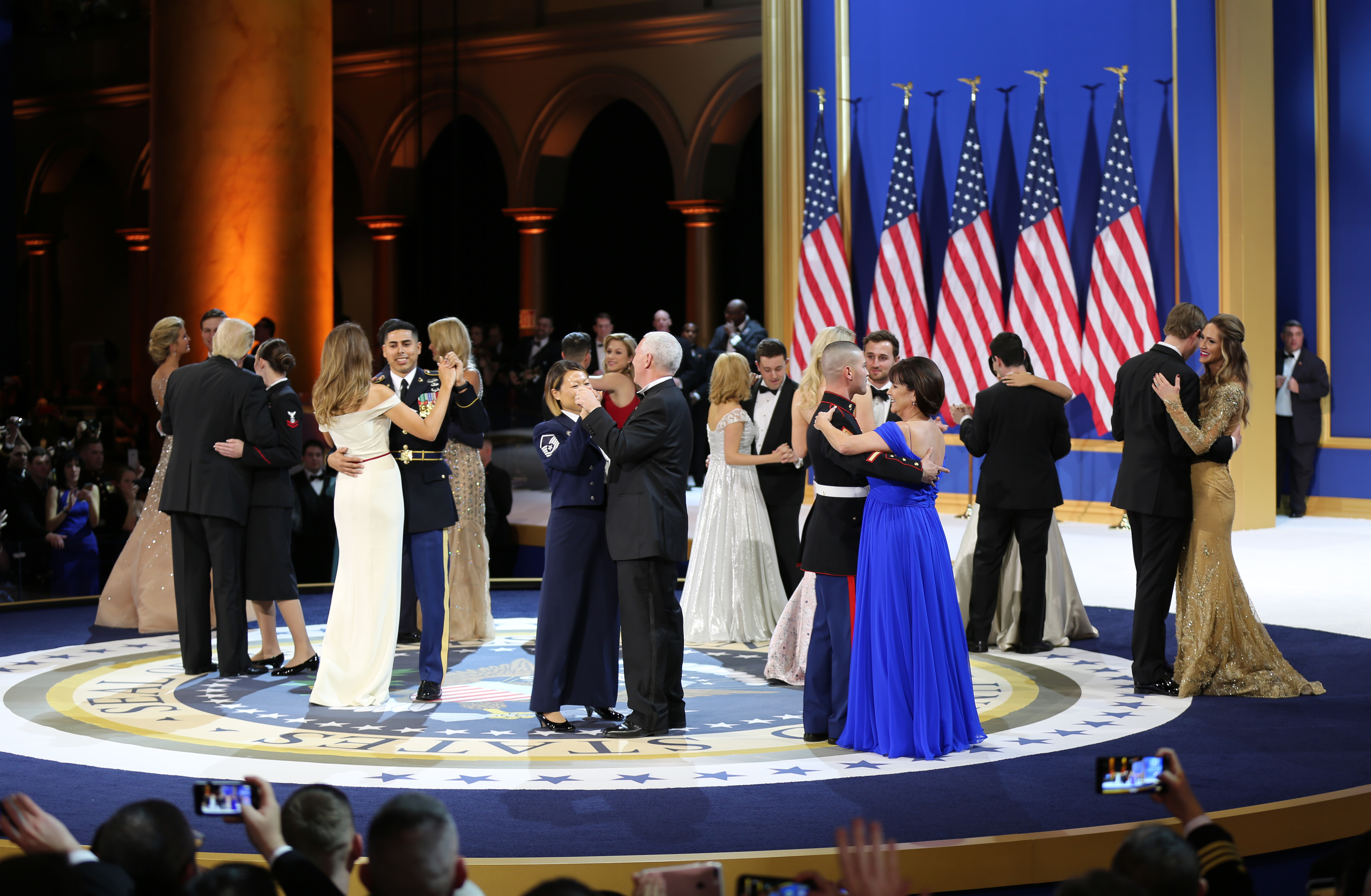 President Donald J. Trump, First Lady Melania Trump, Vice President Michael R. Pence, and Second Lady Karen Pence, dance with service members at the Salute to Our Armed Services Ball at the National Building Museum, Washington, D.C., Jan. 20, 2017. The event, one of three official balls held in celebration of the 58th Presidential Inauguration, paid tribute to members of all branches of the armed forces of the United States, as well as first responders and emergency personnel. (DoD photo by U.S. Army Sgt. Kalie Jones)